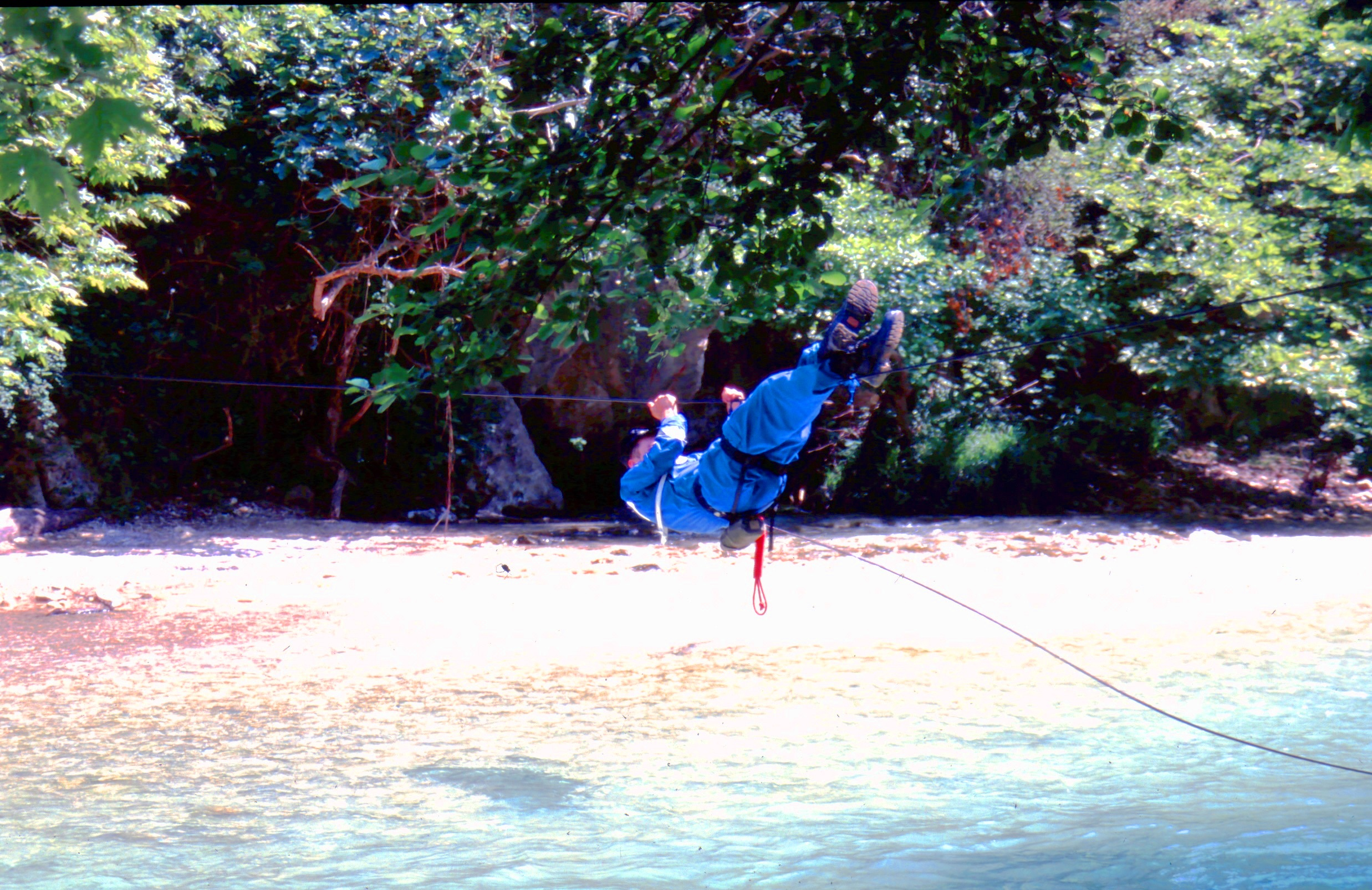 Test tranfer above Acheron river, Greece